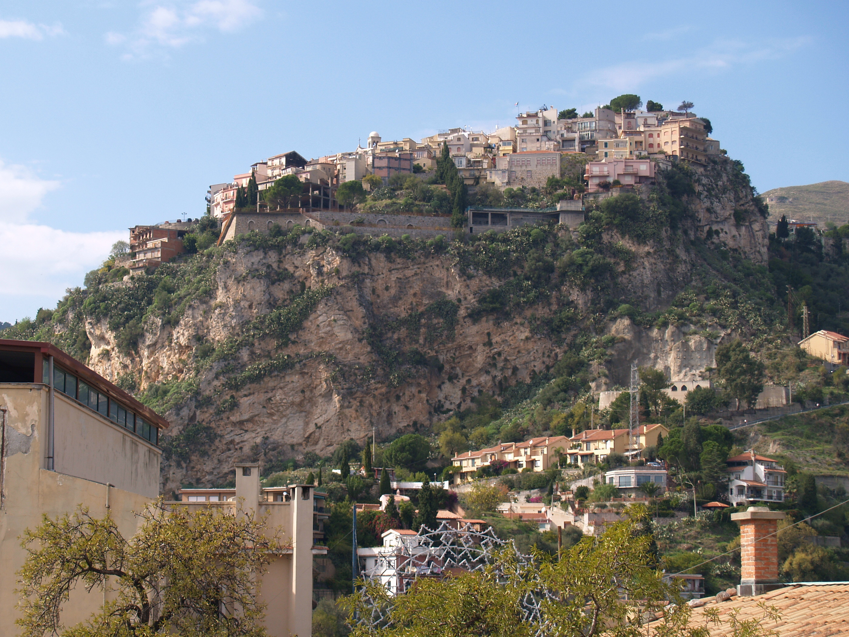 Taormina, Sicily, view to Castelmola